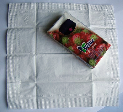 An unfolded Veltie serviette and a Veltie pack. Veltie brand by Kimberly-Clark.